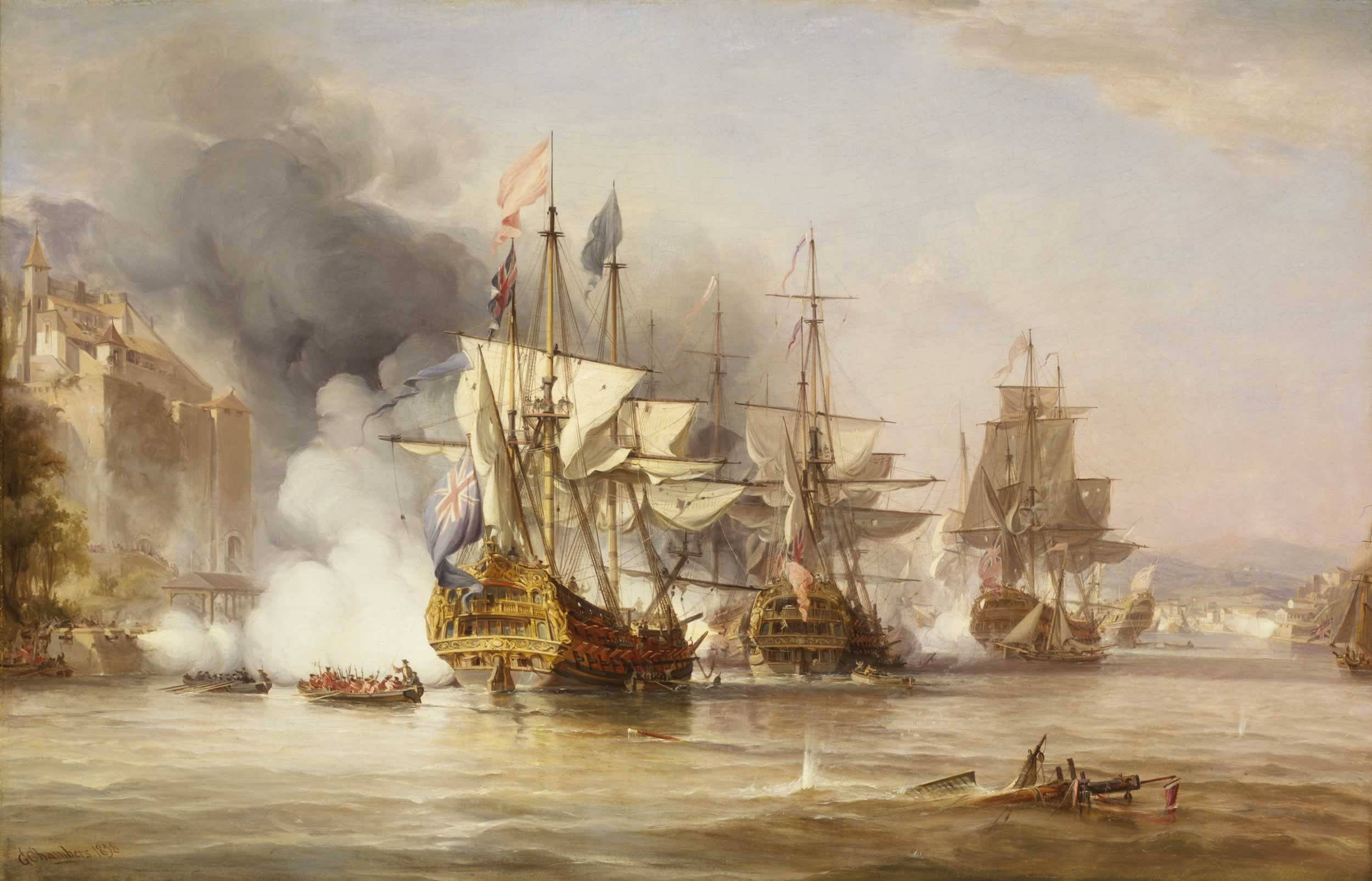 This painting is based on an engraving from a panoramic painting by Samuel Scott. In the summer of 1739, during a debate in the House of Commons relating to the deteriorating situation with Spain in the West Indies, Captain Edward Vernon claimed he could take the Spanish town of Puerto Bello, Panama, on the north side of the Isthmus of Darien with six ships of the line. He was taken at his word, promoted to Vice-Admiral and given six ships to redeem his pledge. The war became known as the War of Jenkins' Ear. The main obstacle to be overcome was the Iron Castle at the northern side of the entrance to the harbour. Vernon succeeded in taking the town and in destroying the fortifications and the iron ordnance. This painting shows the attack on the Iron Castle. In the left foreground Vernon's flagship, 'Burford', 70 guns, with Vernon's blue Vice-Admiral's flag at the fore, in starboard-quarter view, engages the Iron Castle to port and two of the boats are moving in to make a landing. Ahead of her are the 'Strafford', 60 guns, and the 'Worcester', 60 guns, with Commodore Brown in the 'Hampton Court', 70 guns, on their right, flying his red swallow-tail pennant. Puerto Bello can be seen in the right background with gunfire coming from the castle. All the Union flags are incorrectly shown as being of the post-1801 pattern.